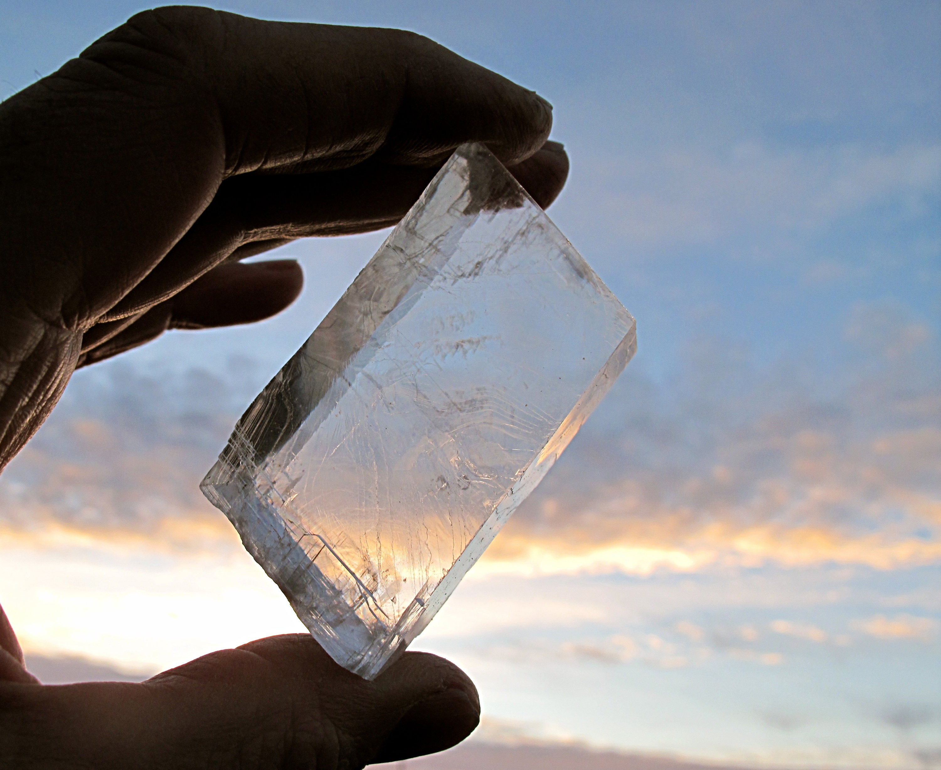 Iceland spar, perhaps the medieval sunstone.